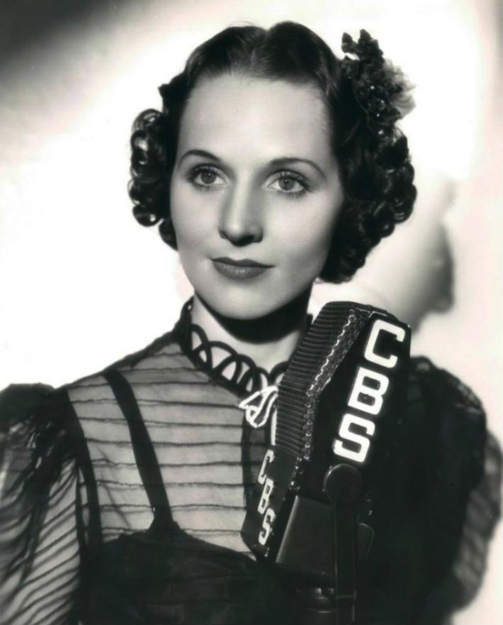 Publicity photo of vocalist Nadine Conner.